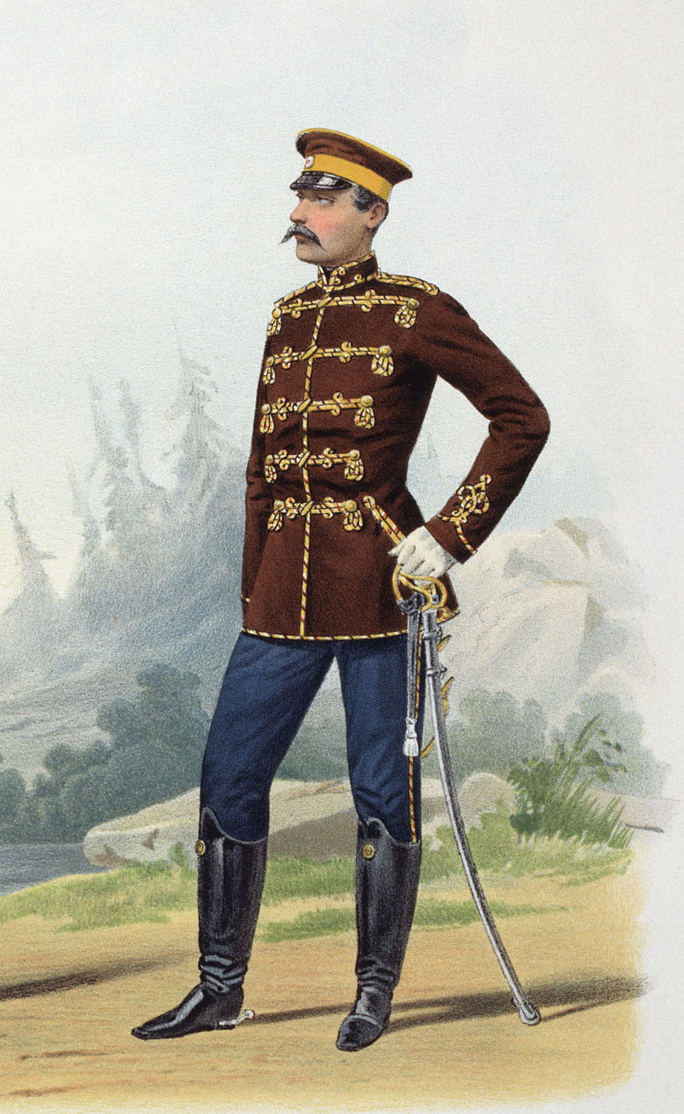 Uniform of Husar 12-th Akhtyrsky Regiment. 1869